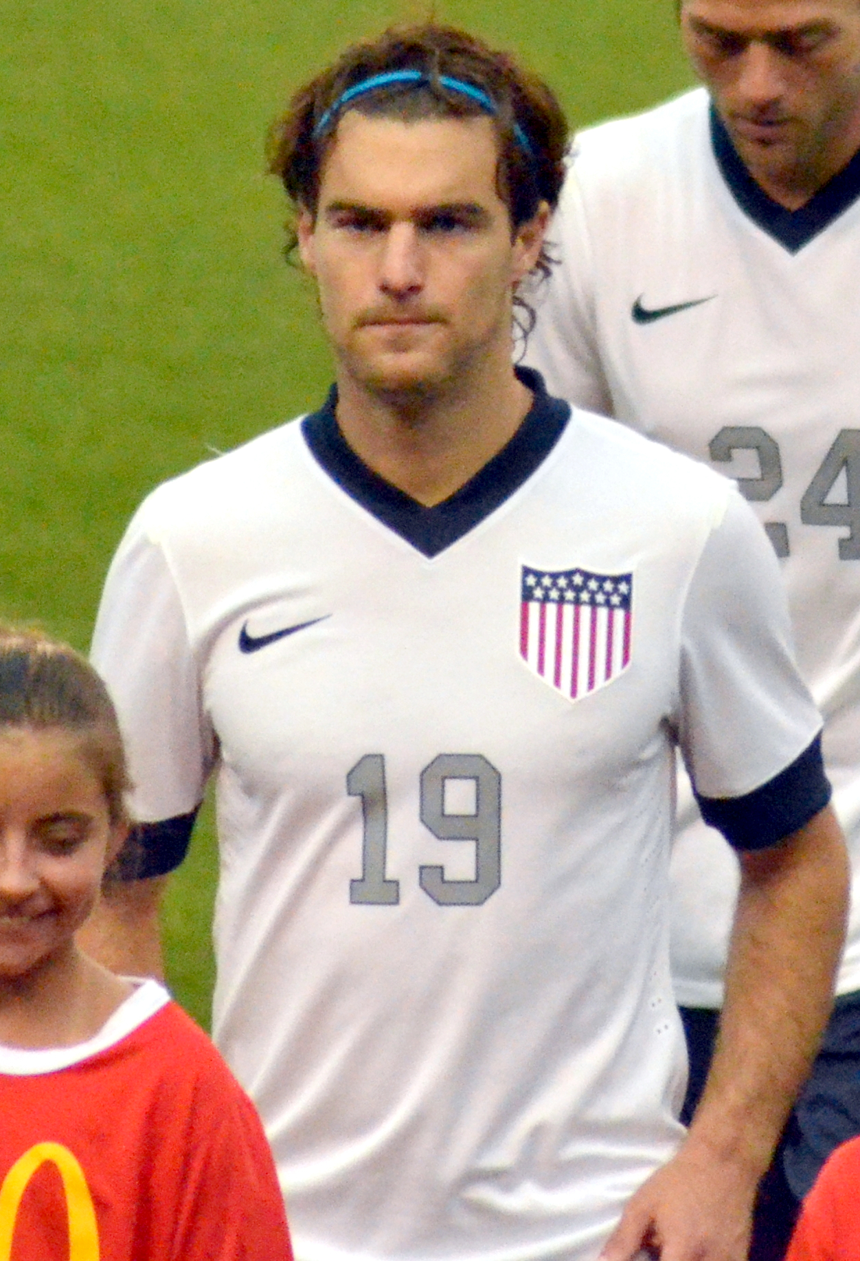 FirstEnergy Stadium Home of the Cleveland Browns